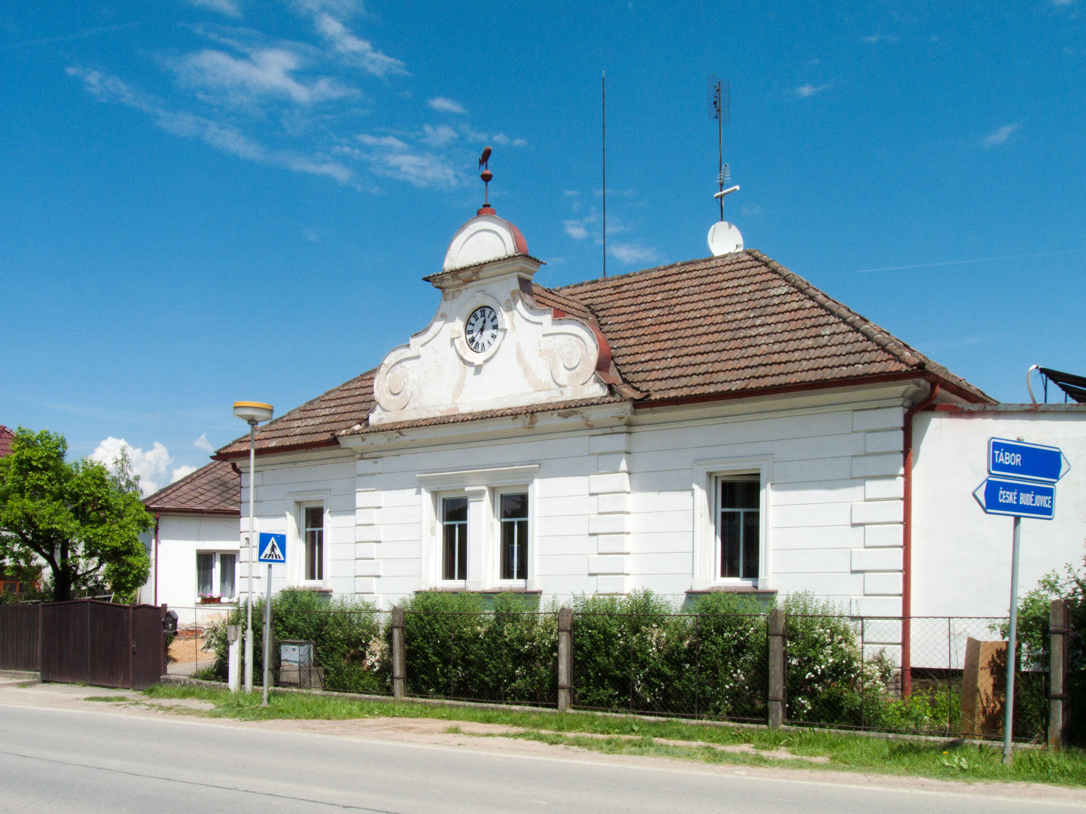 House No 70 with a clock in the gable in Strkov, part of Planá nad Lužnicí|Planá nad Lužnicí, Tábor District, Czech Republic. Česky: Dům č.p. 70 s hodinami ve štítu ve Strkově, části města Planá nad Lužnicí v okrese Tábor